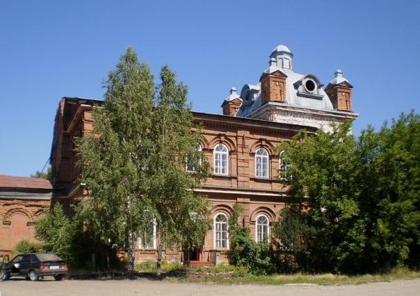 Andreevskaya church in village Suda, 2010